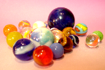 Marbles. Diverse designs and sizes of marbles. Canicas. Bombocha I took the picture of some marbles I own. April 2007.